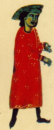 Raimbaut of Orange from a 13th-century chansonnier.